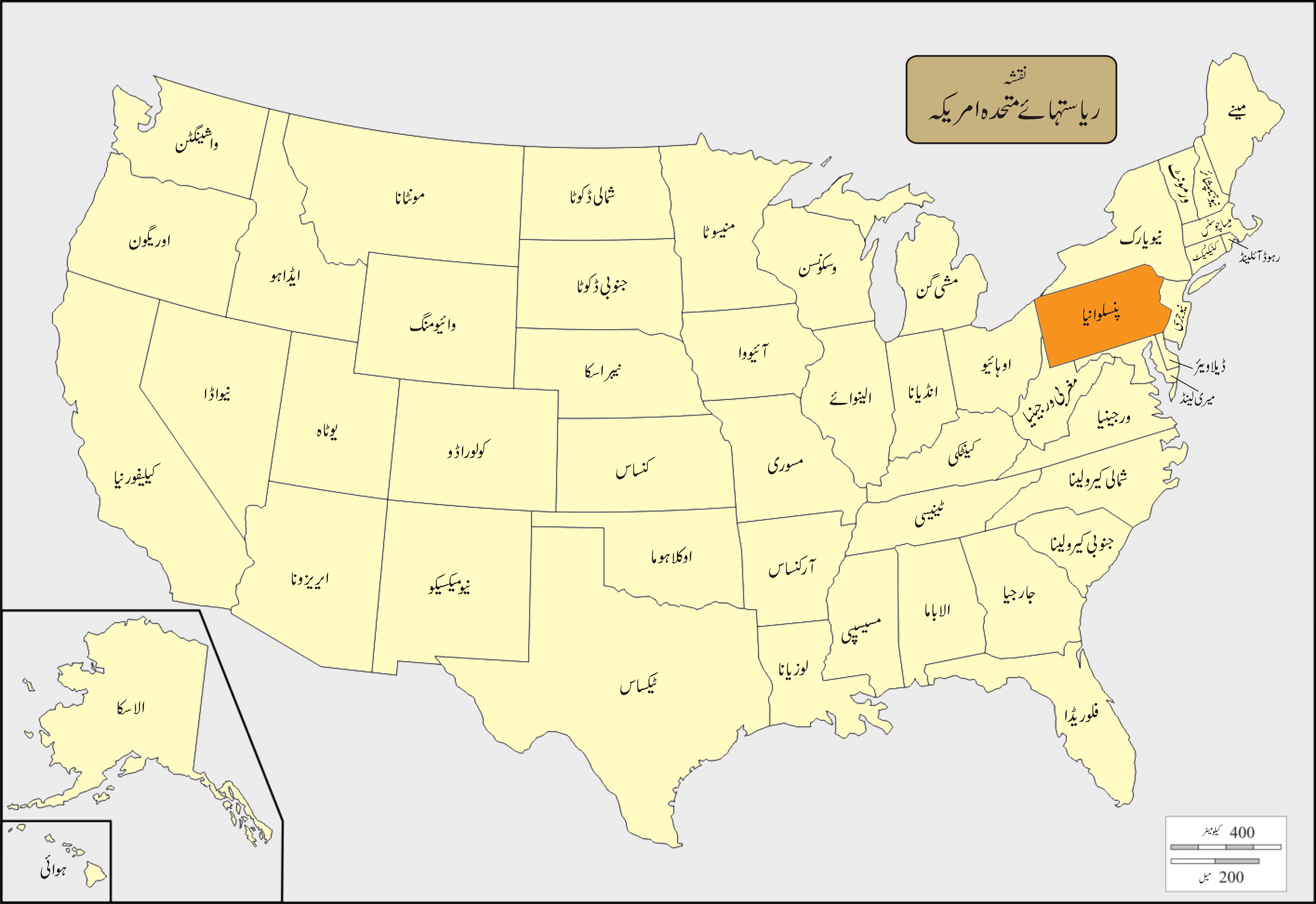 USA Names Pennsylvania